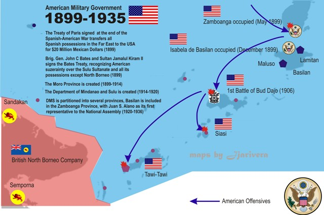 1899-1935 map of Sulu archipelago, Philippines